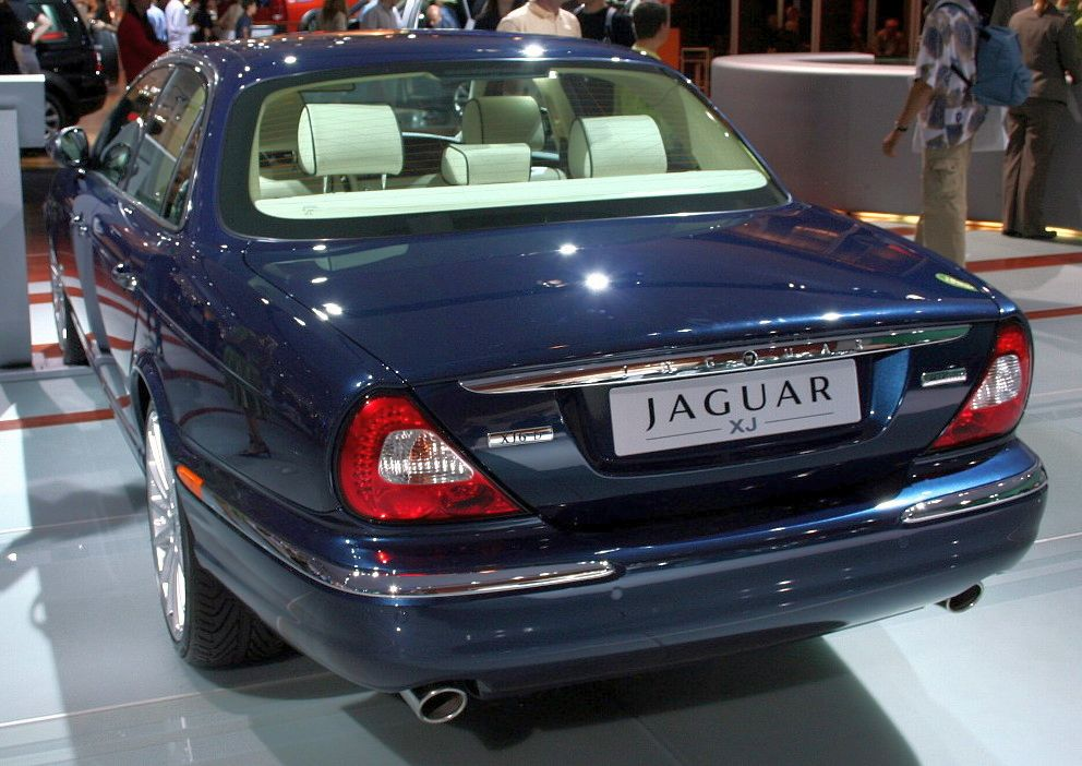 Jaguar XJ on IAA 2005 (back view) Photo taken by Ygrek, 17th September 2005.